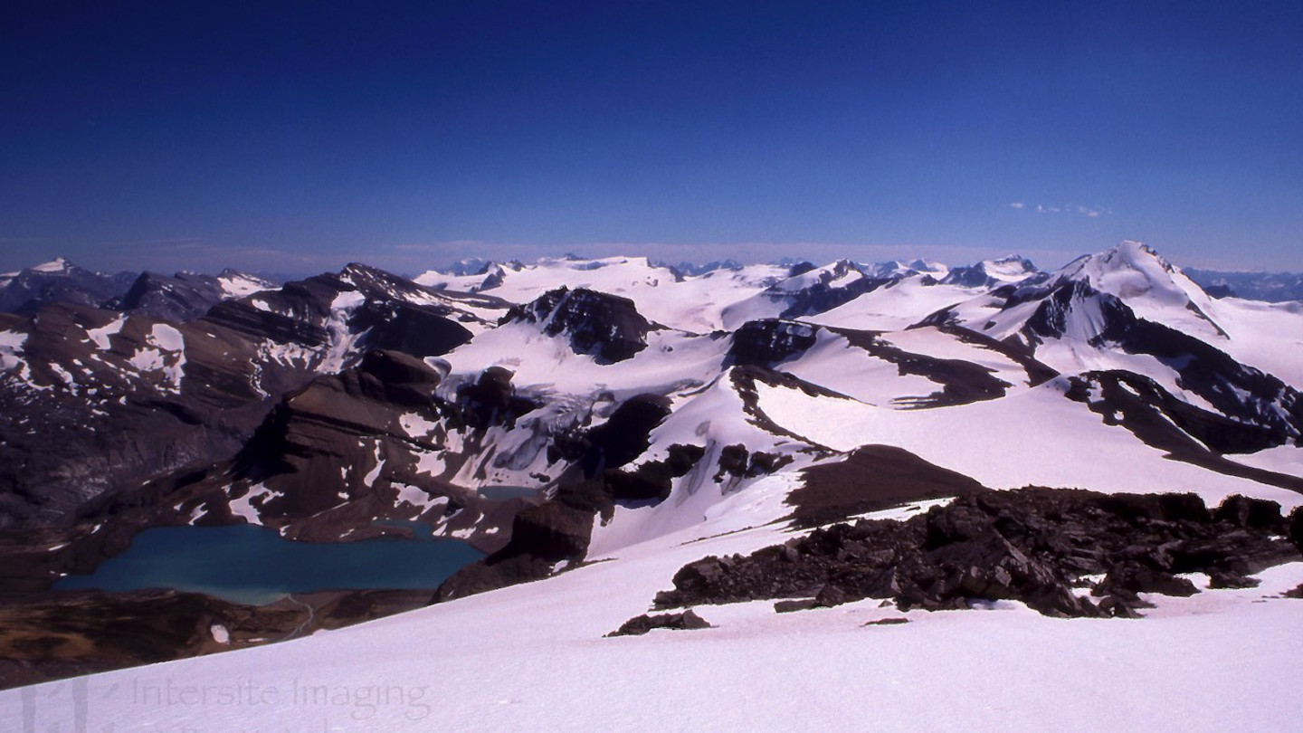 View from Mistaya Mountain summit to the South: Caldron Lake and the Wapta Icefield.